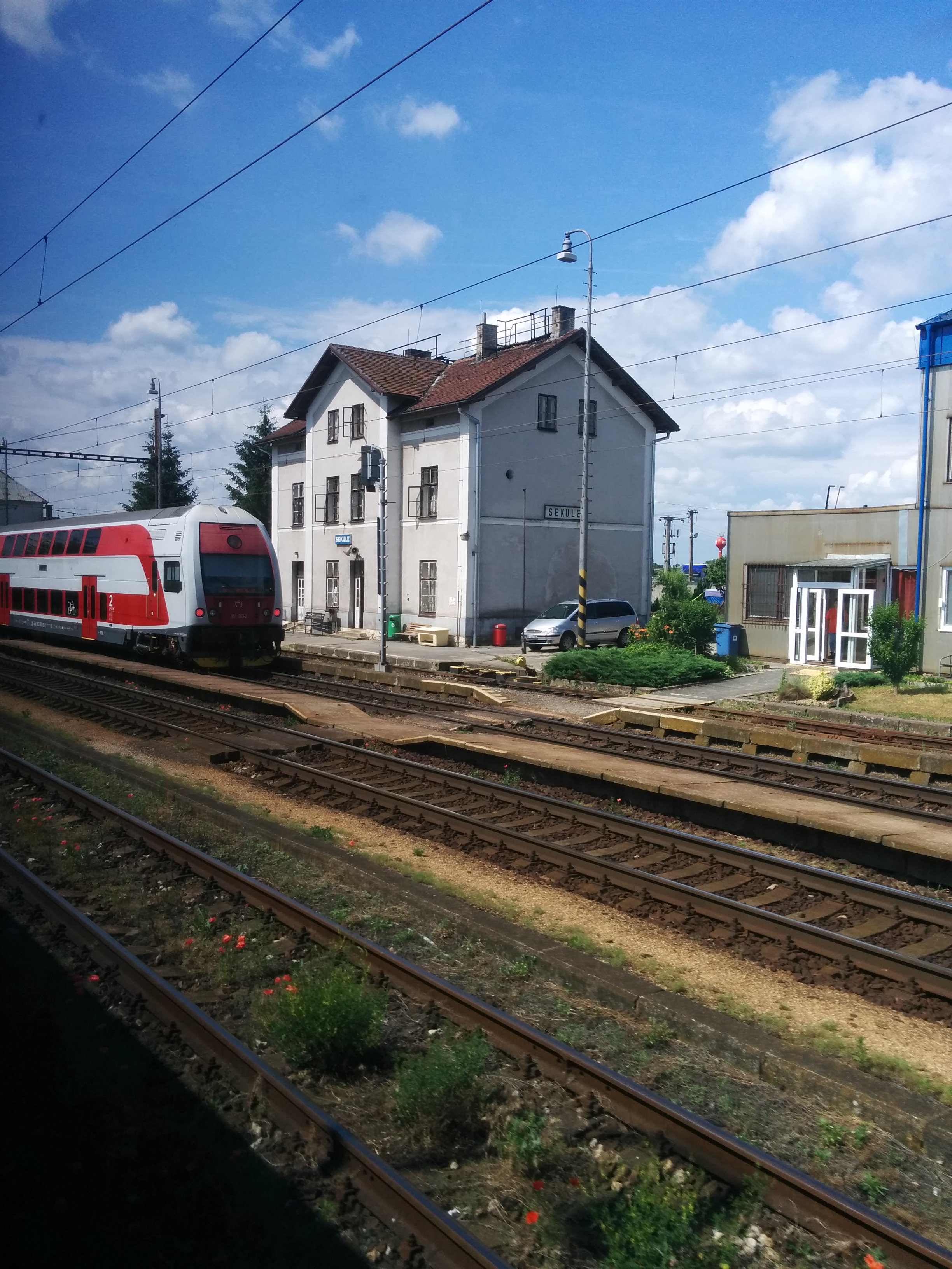 Railways station in Sekule, Slovakia, June 2018.